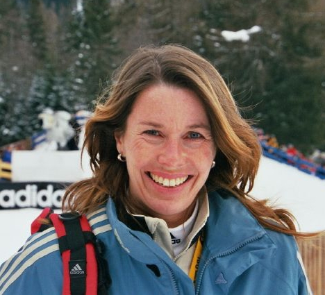 Magdalena Forsberg, Swedish biathlete. Photo from Antholz-Anterselva in 2006.